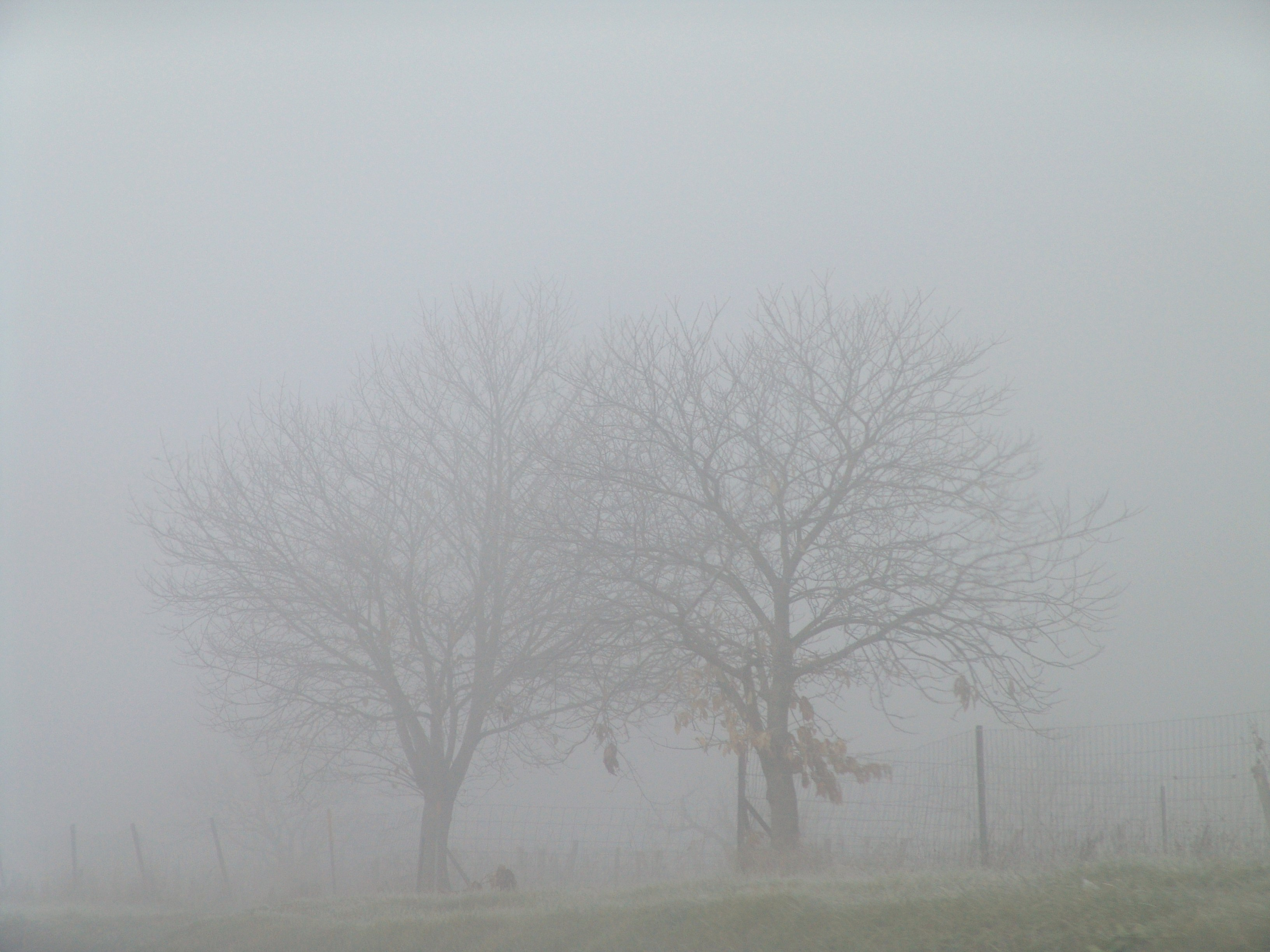 Trees in the fog